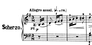 Incipit of the 3th movemnt from the Piano Sonata No. 10 (Beethoven), in G major, Opus 14, No 2.